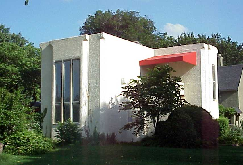 Adah Robinson Residence, 1119 S. Owasso, Tulsa, OK (1927-29), Architects Bruce Goff and Joseph Koberling. Residential example of Zig Zag school of the Art Deco movement.